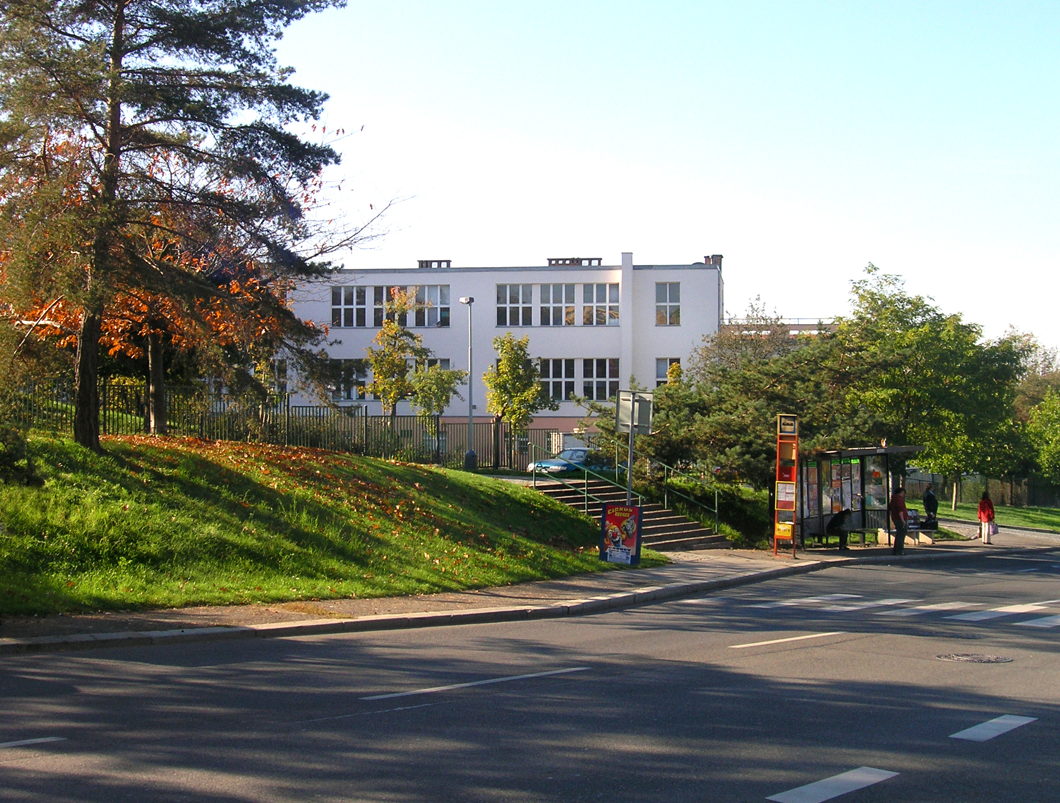 Elementary school "Jižní" in Spořilov, Prague